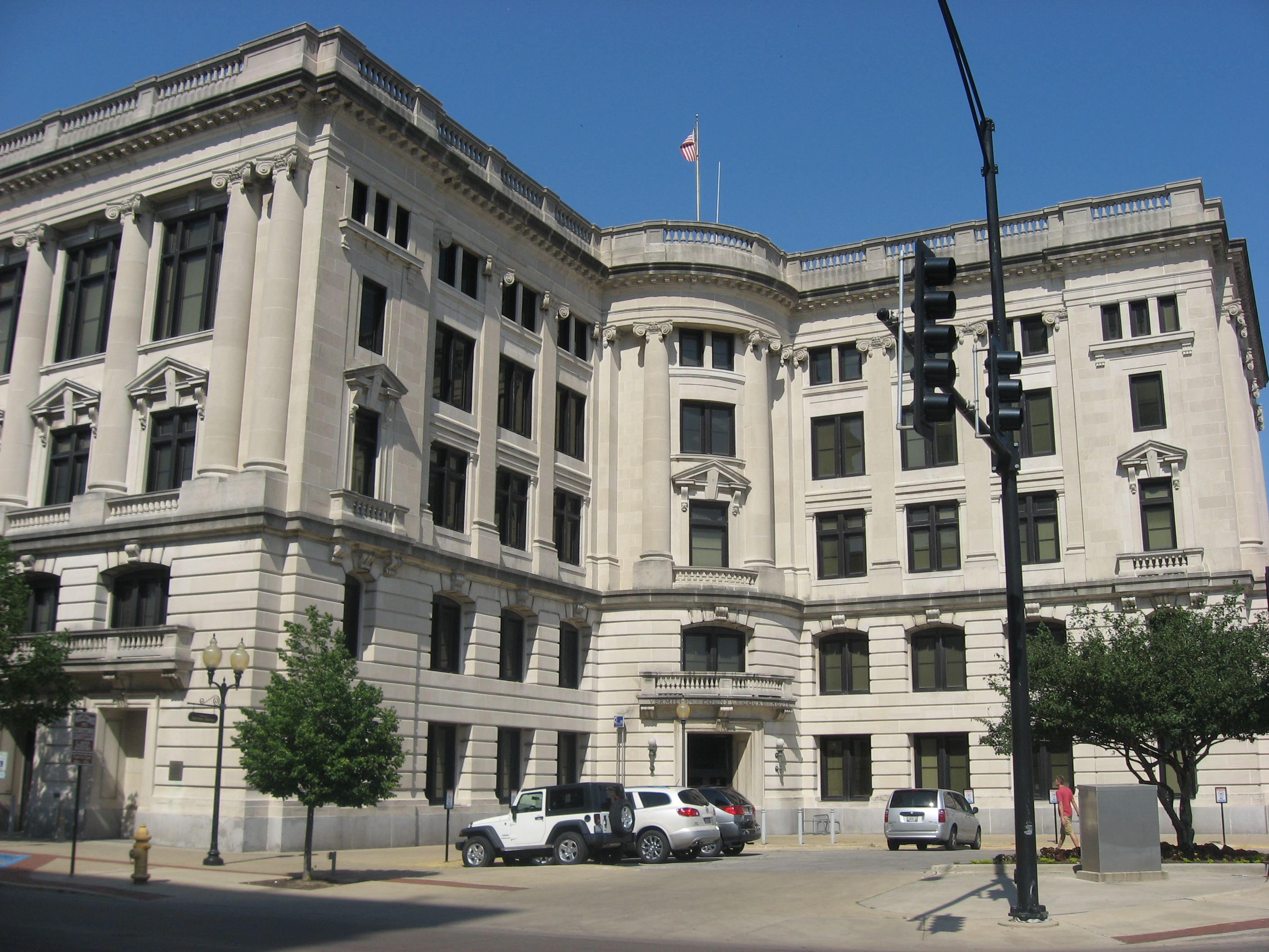 Front of the Vermilion County Courthouse, located on the northeastern corner of the junction of Main (U.S. Route 136) and Vermilion Streets in downtown Danville, Illinois, United States. It was built in 1876 and modified in 1912.